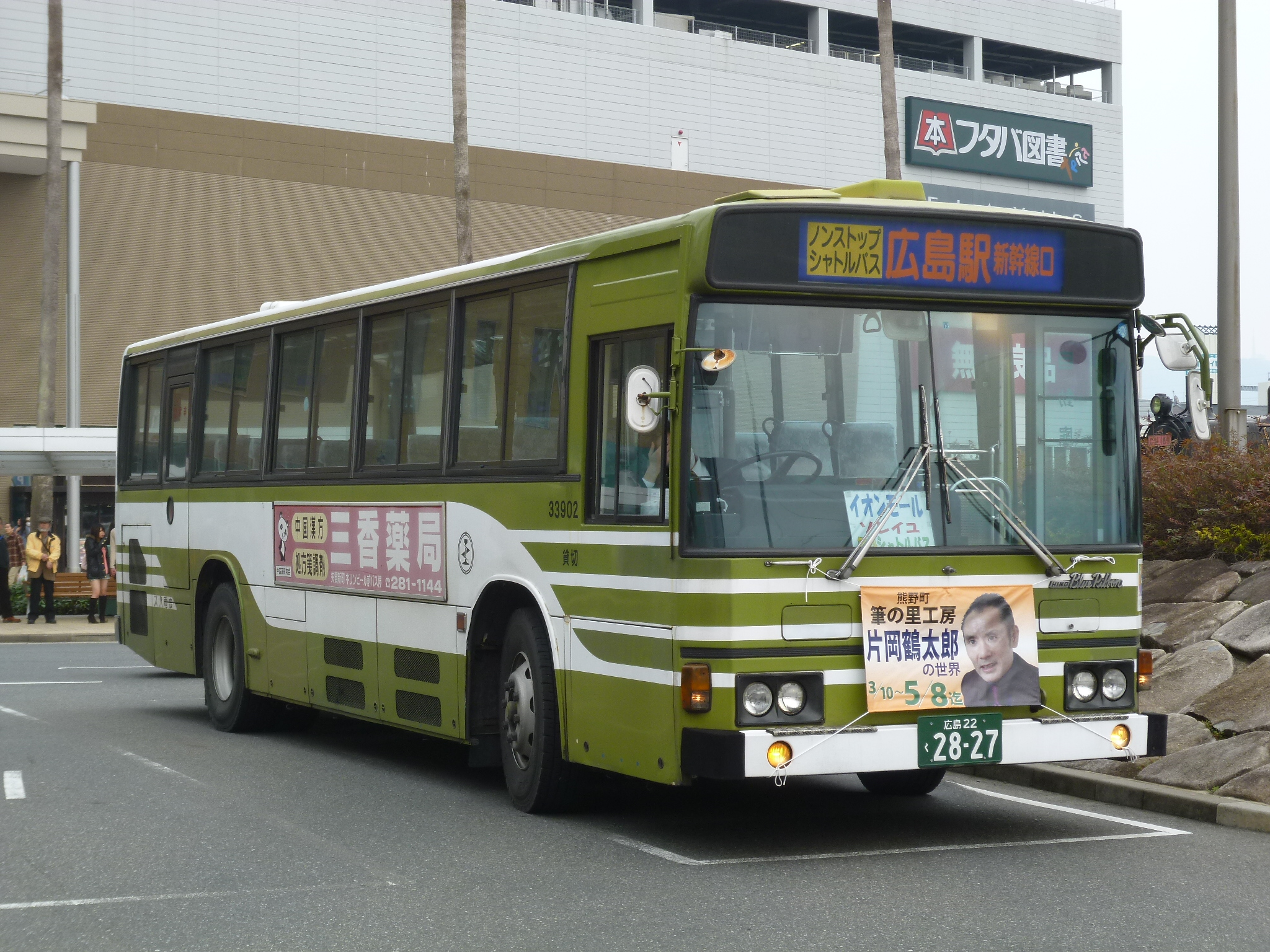 Hiroden Bus No.33902(AEON MALL HIROSHIMAFUCHU SOLEIL Shuttle Bus)